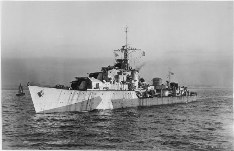 Photograph of British destroyer HMS Zest.